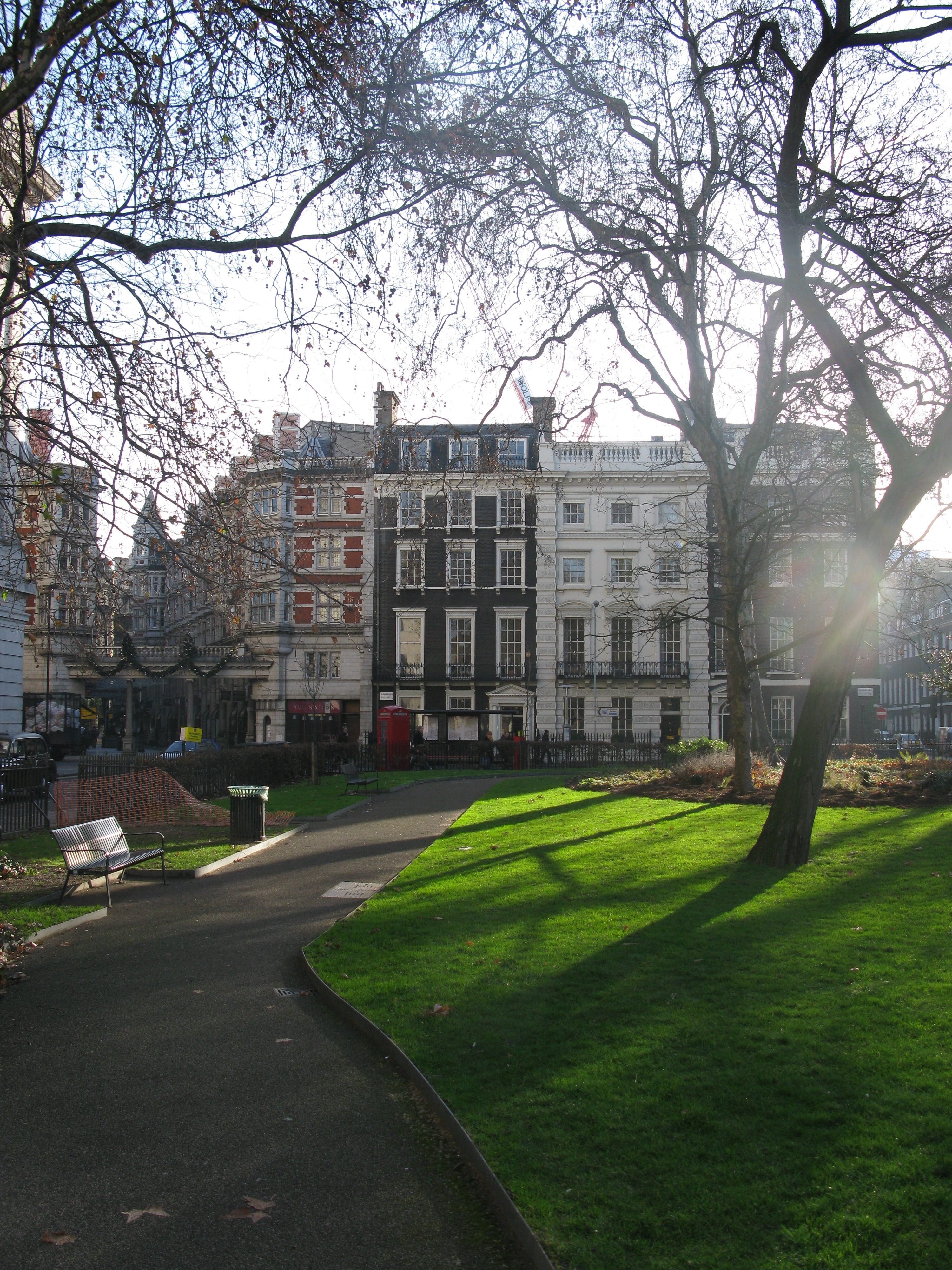 Bloomsbury Square, London, Great Britain